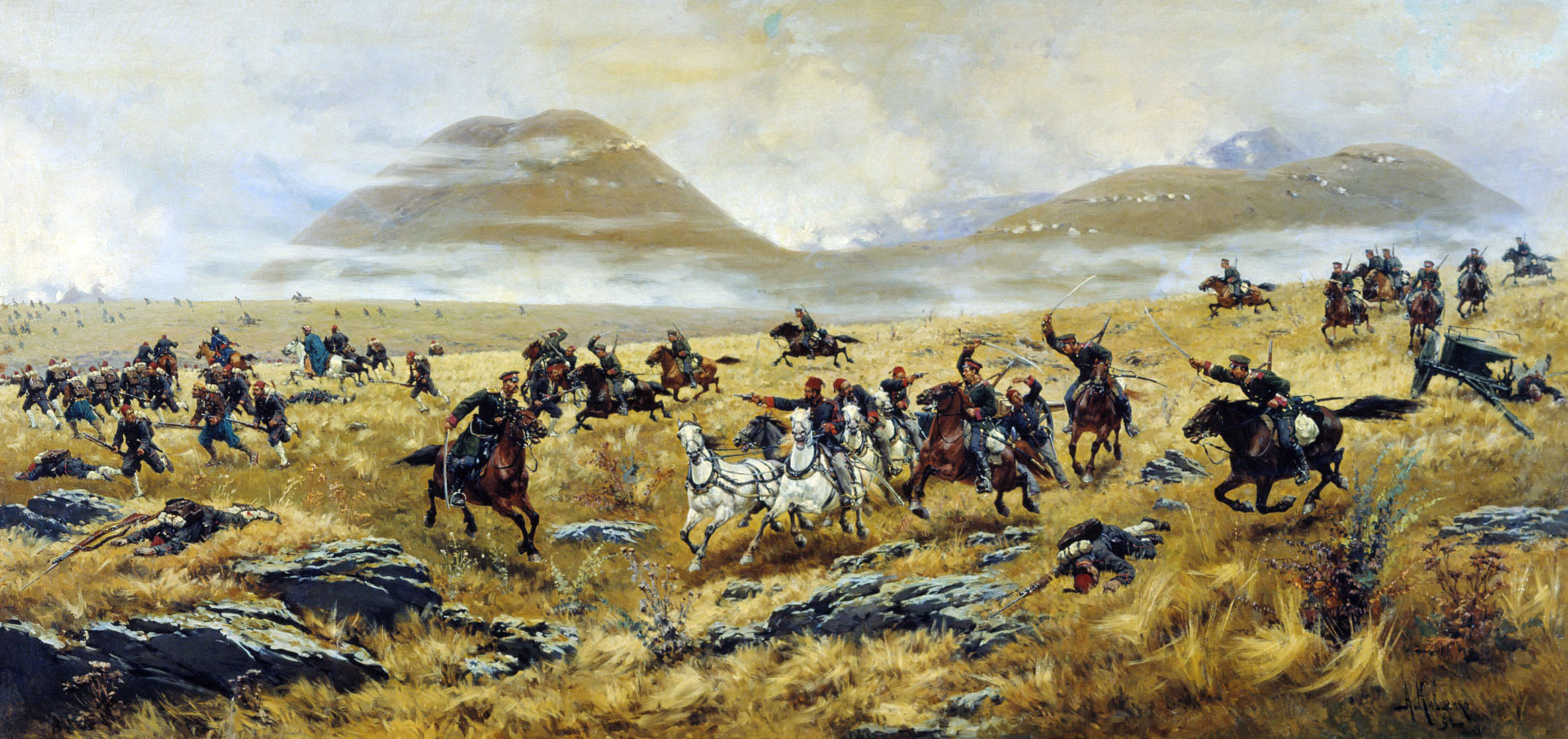 Dragoons of Nizhny Novgorod pursuing the Turks near Kars during the battle of Aladja, October 3rd 1877